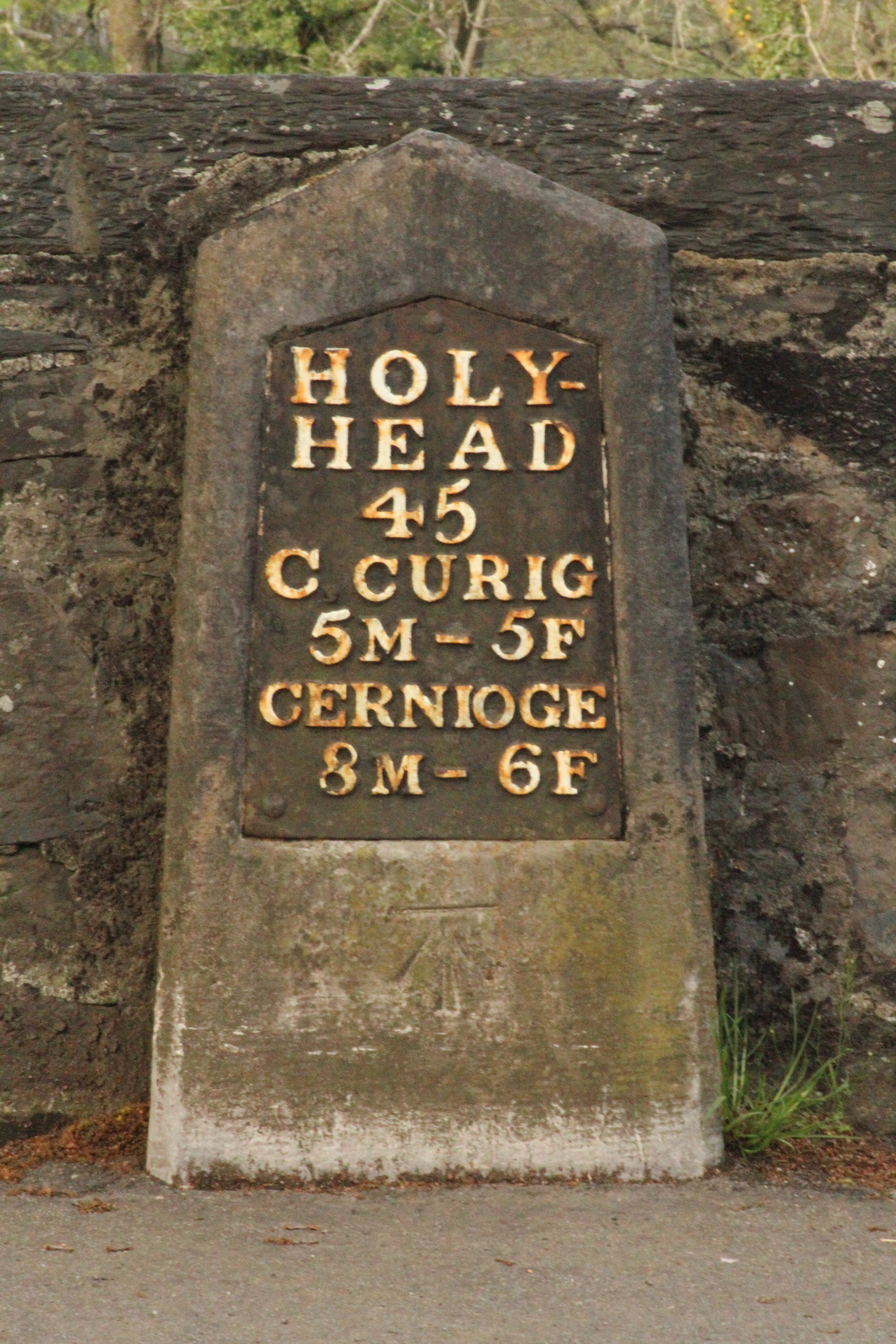 Milestone on Telford's road through North Wales (now part of the A5), built in about 1815. The milestone is located between the River Conwy and the main shopping centre of Betws-y-Coed. It shows the distance to Holyhead as 45 miles; the distance to Capel Curig as 5 miles and 5 furlongs and the distance to Cernioge [Inn] (now a farm near Rhydlydan)[1] as 8 miles and 6 furlongs.